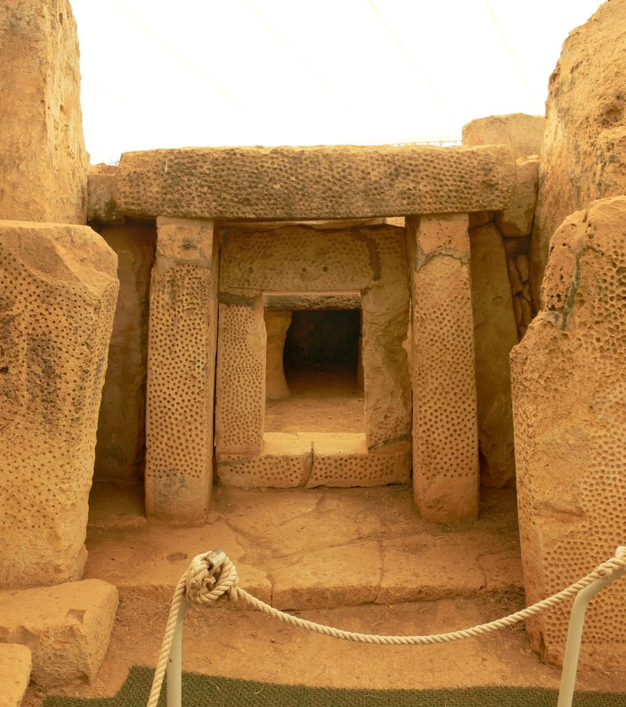 Porthole slab in Mnajdra temple, Qrendi, Malta